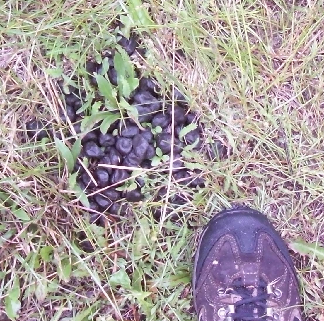 Droppings (dung pile, pellet group) of elk (Cervus canadensis) in a meadow in the Valles Caldera, New Mexico.